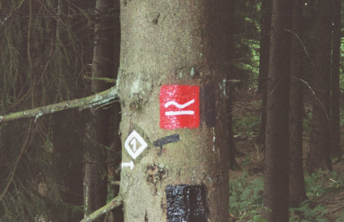 The sign of the so called Rothaarsteig, Germany.